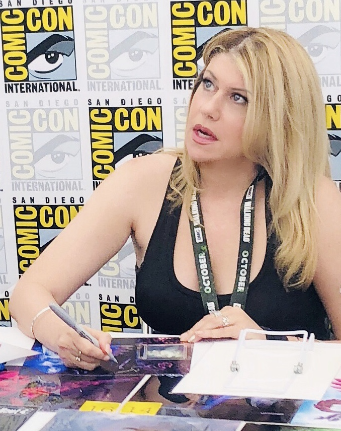 Actress Kat Cressida at San Diego Comic-Con.